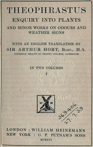 Title page of Sir Arthur Hort's edition with parallel Greek and English text of Theophrastus's Enquiry into Plants (De Historia Plantarum), Heinemann and G.P. Putnam's Sons, 1916